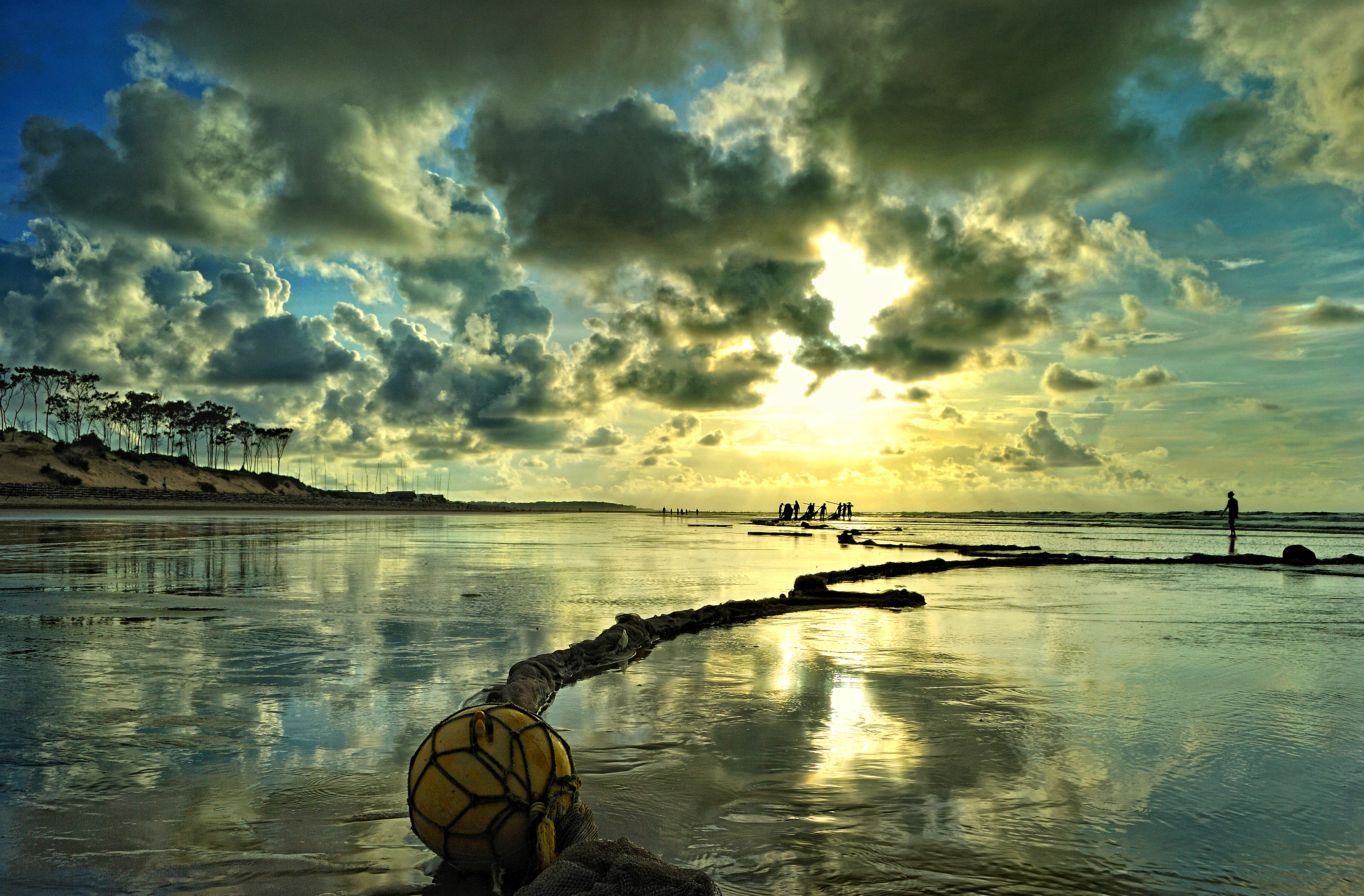 The Beach Reflects the sky during fishing operations of the fishermen at The Coastal Resort of Digha, West Bengal, India